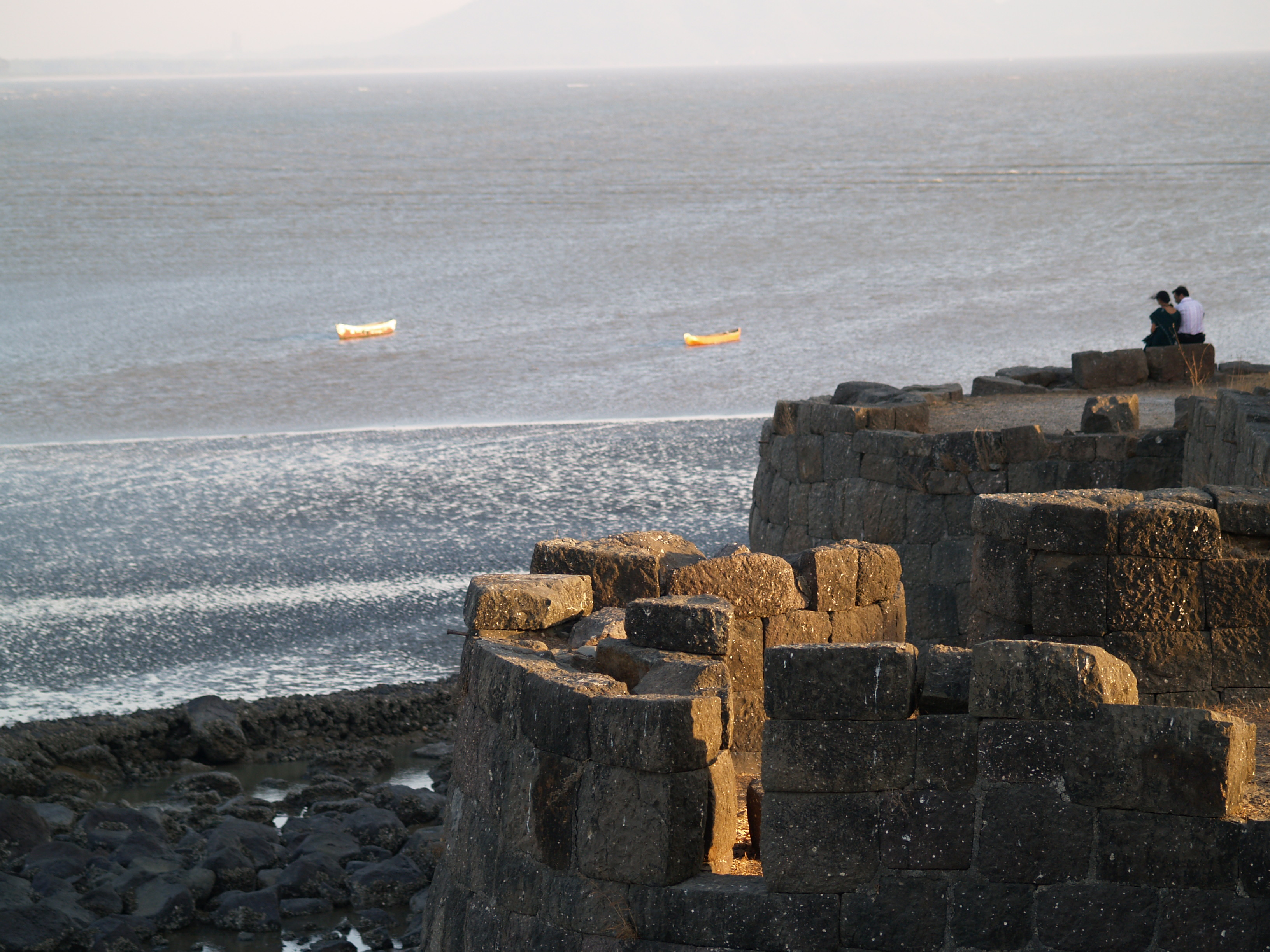 View from Alibag fort